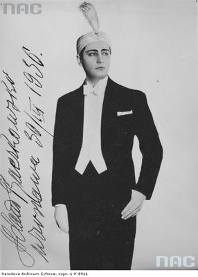 Raczkowski Adam